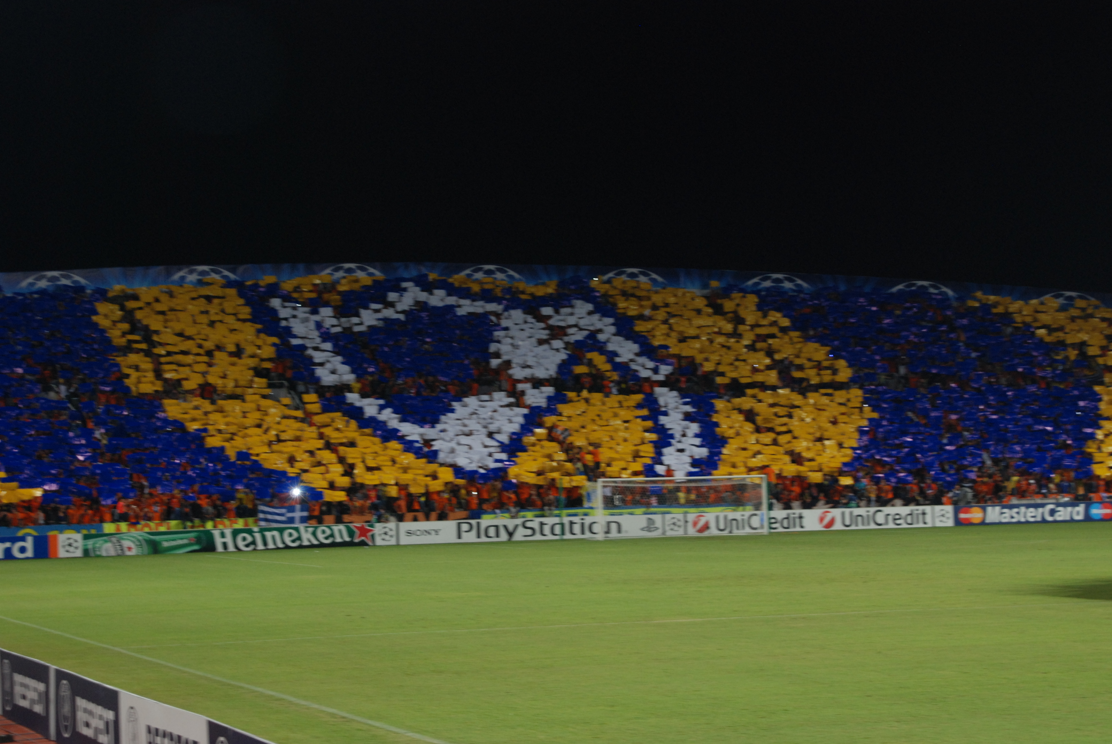 Photos from the UEFA Champions League game between APOEL Nicosia and Chelsea.